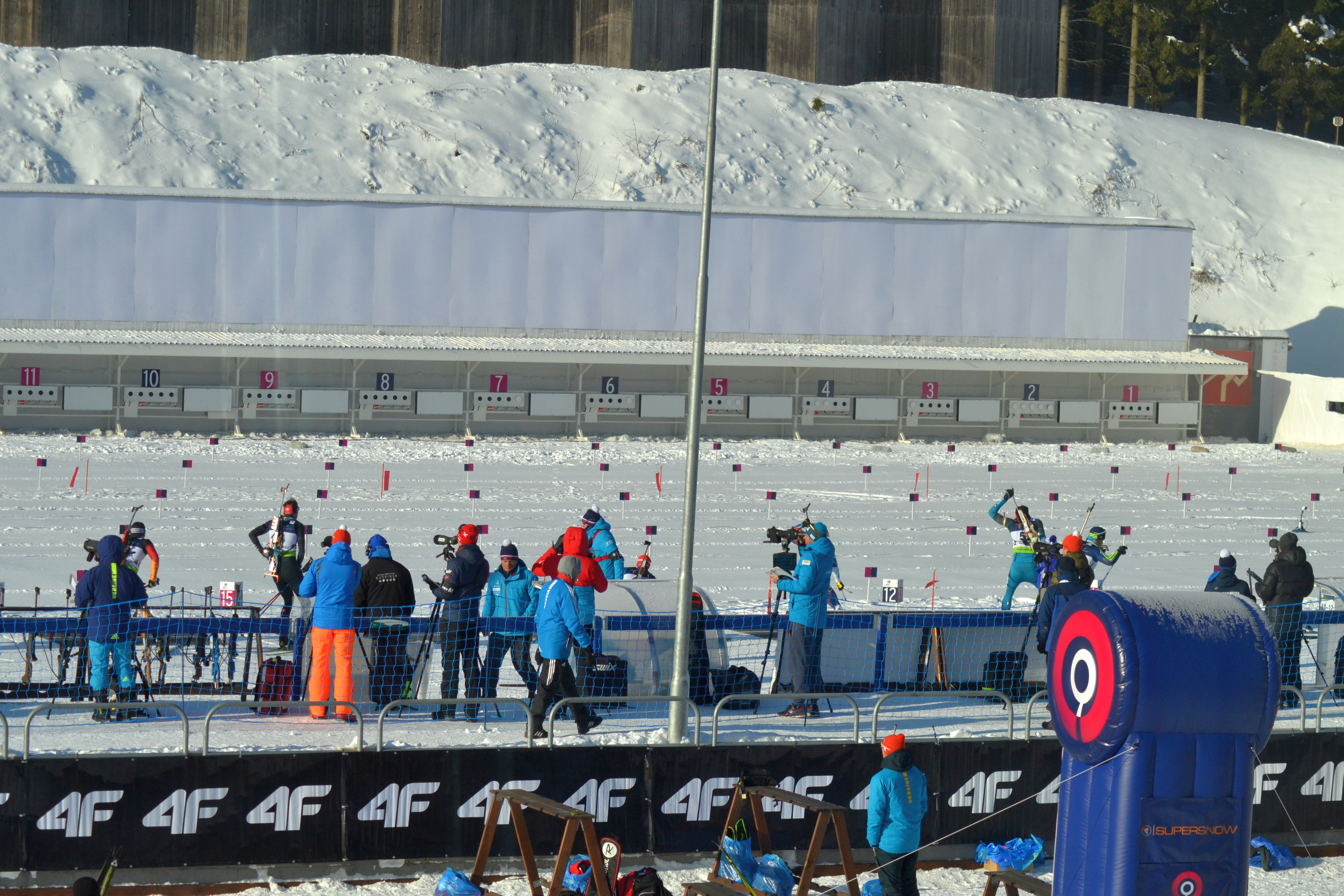 Open European Championships Biathlon 2017, Men's Pursuit race.